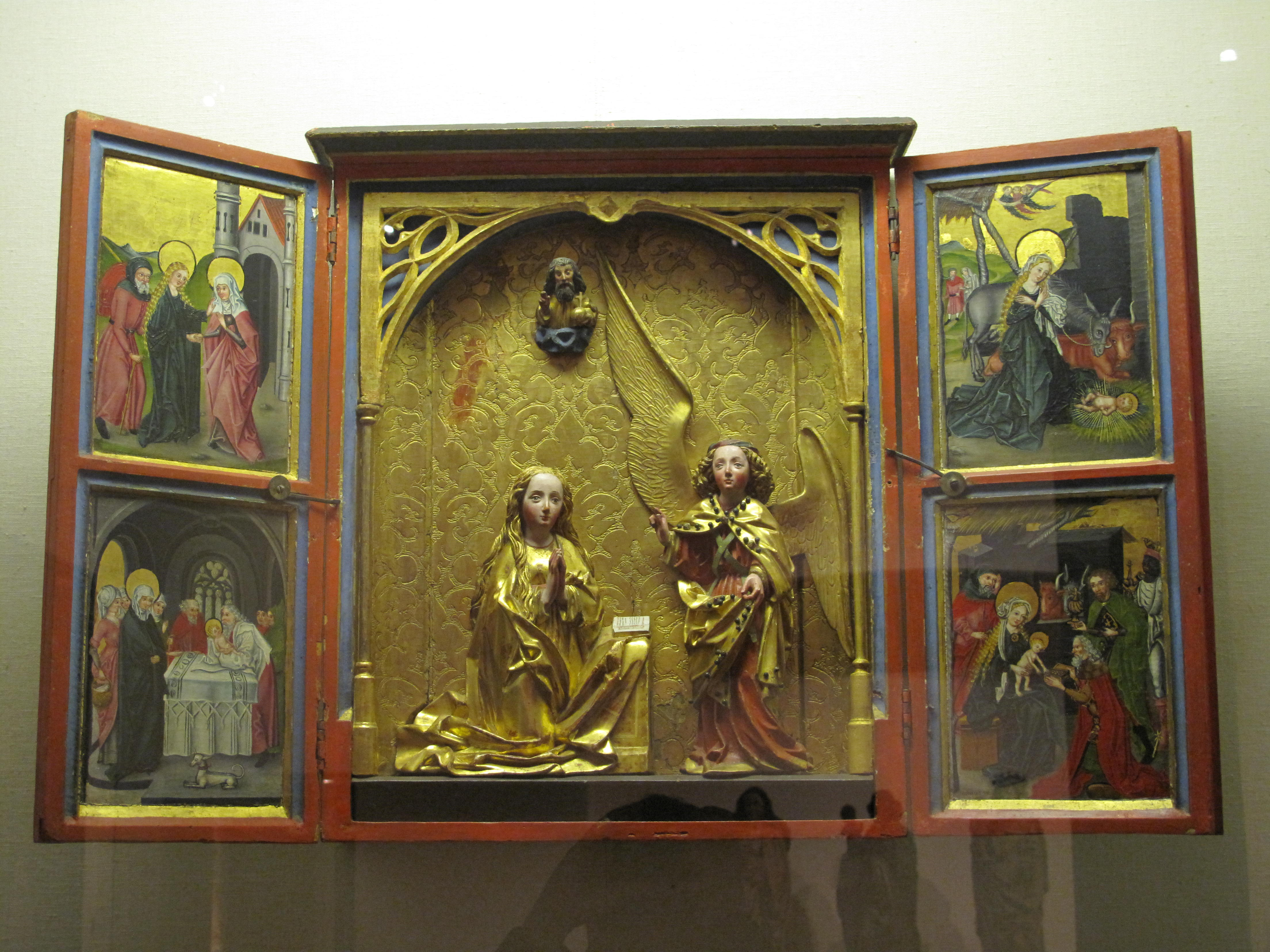 Home altar of the Annonciation. Southern Germany. Left panel : Visitation and Presentation of Jesus in Temple. Right panel : Nativity and adoration of Magi. Central panel : l'Annonciation.